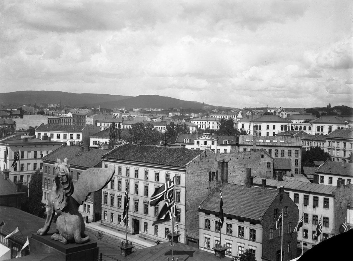 Kristian Augusts gate 17–19, Oslo